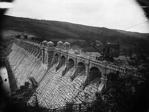 1 negative : glass, b&w